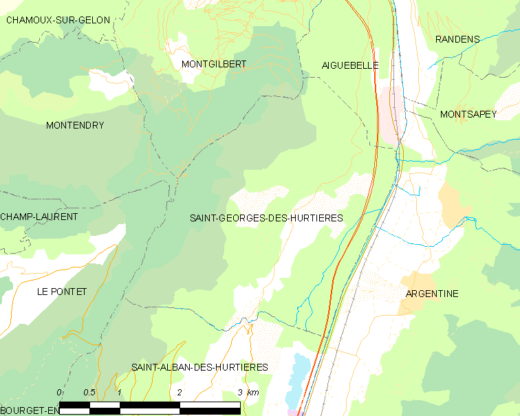 Map of French municipality